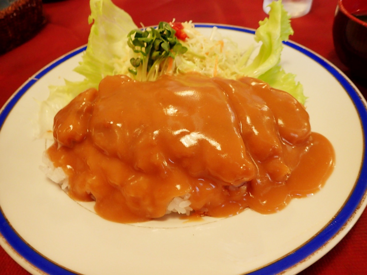 Yōfū Katsudon (Western-style pork cutlet on rice) at Restaurant Nakata, Nagaoka, Niigata Prefecture, Japan